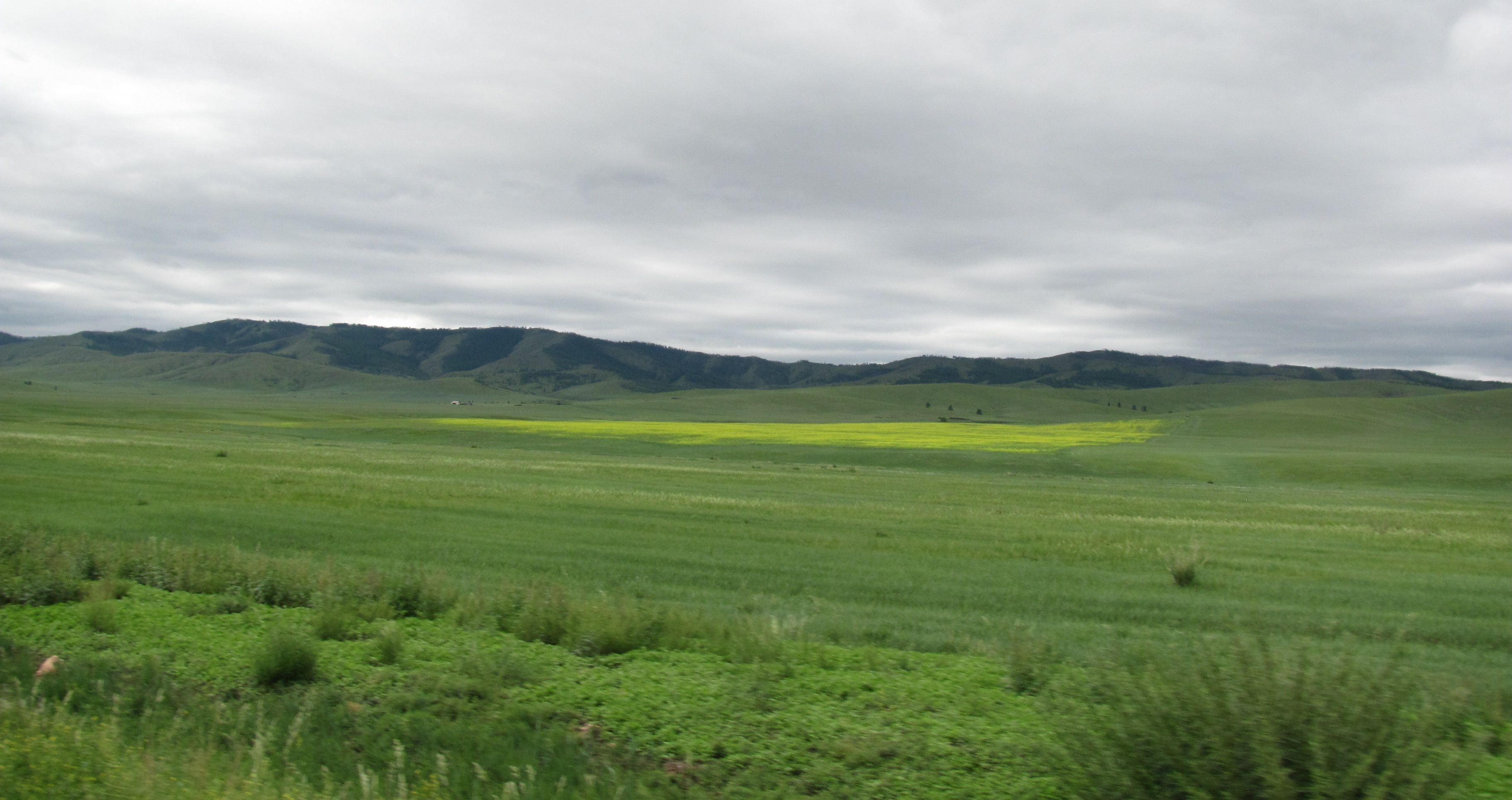 Rape Field in Selenge Province, Mongolia